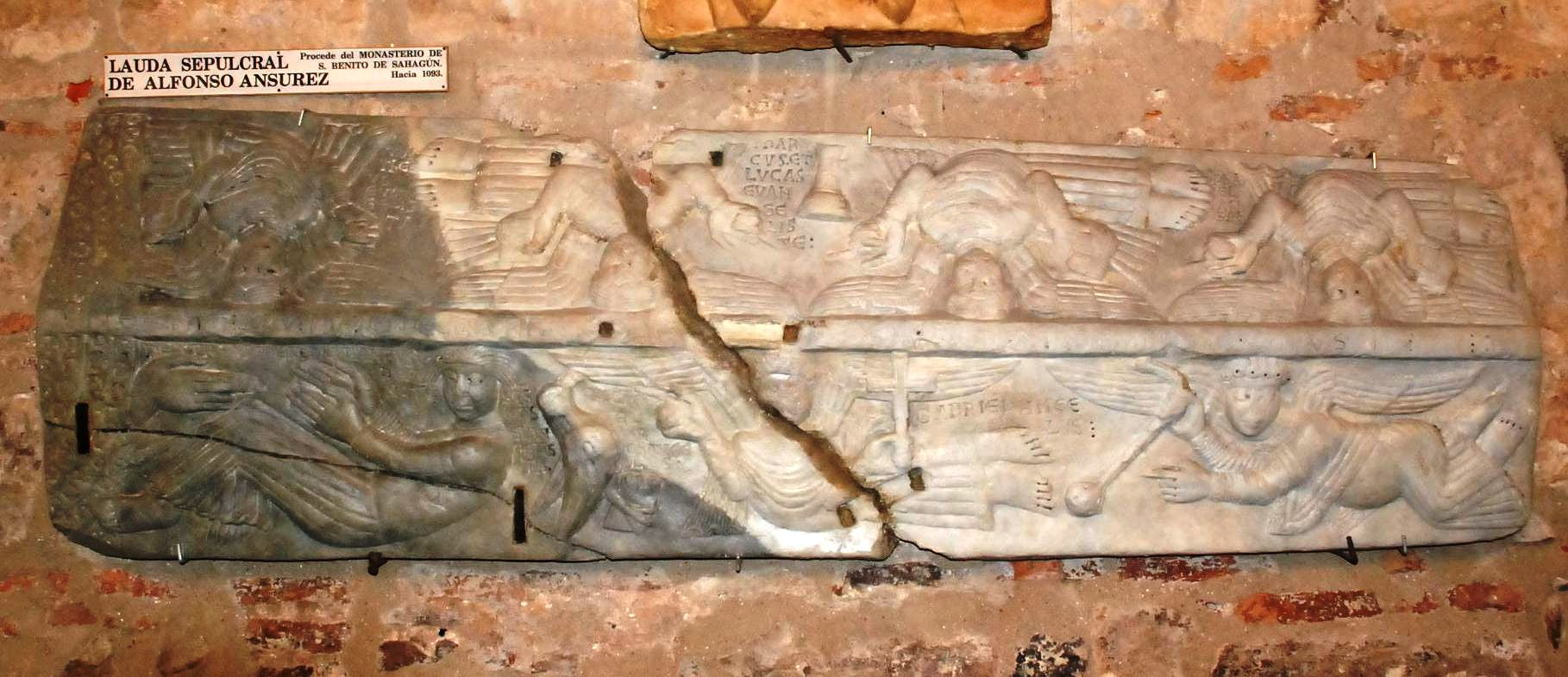 Sarcophagus of Alfonso Pérez, son of count Peter Ansúrez. From the monastery of San Benito (Sahagún, León). This tombstone was sold to New York Metropolitan Museum in 1926, and returned to the National Archaeological Museum in exchange for other archaeological pieces. Now in the Museum of the Collegiate Church of San Isidoro of León.